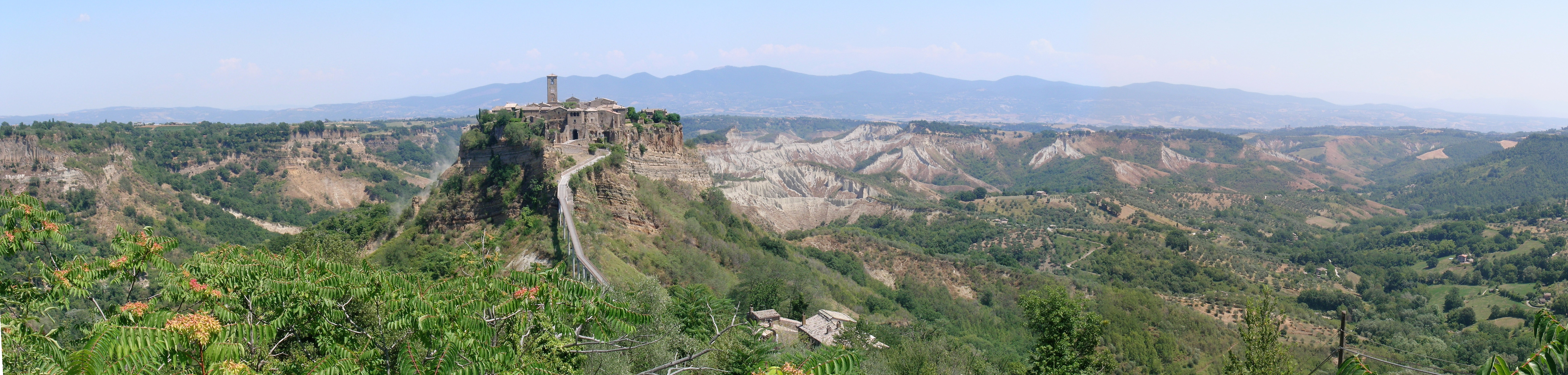 Bagnoregio is a small town in Lazio, Italy. The old part, called "civita", is on the top of the hill. This picture shows the "civita" and the surroundings, under a strong summertime sun, it's a panorama made of 3 pictures stitched together